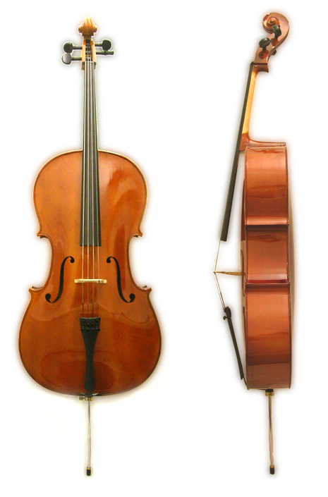 Cello, front and side view